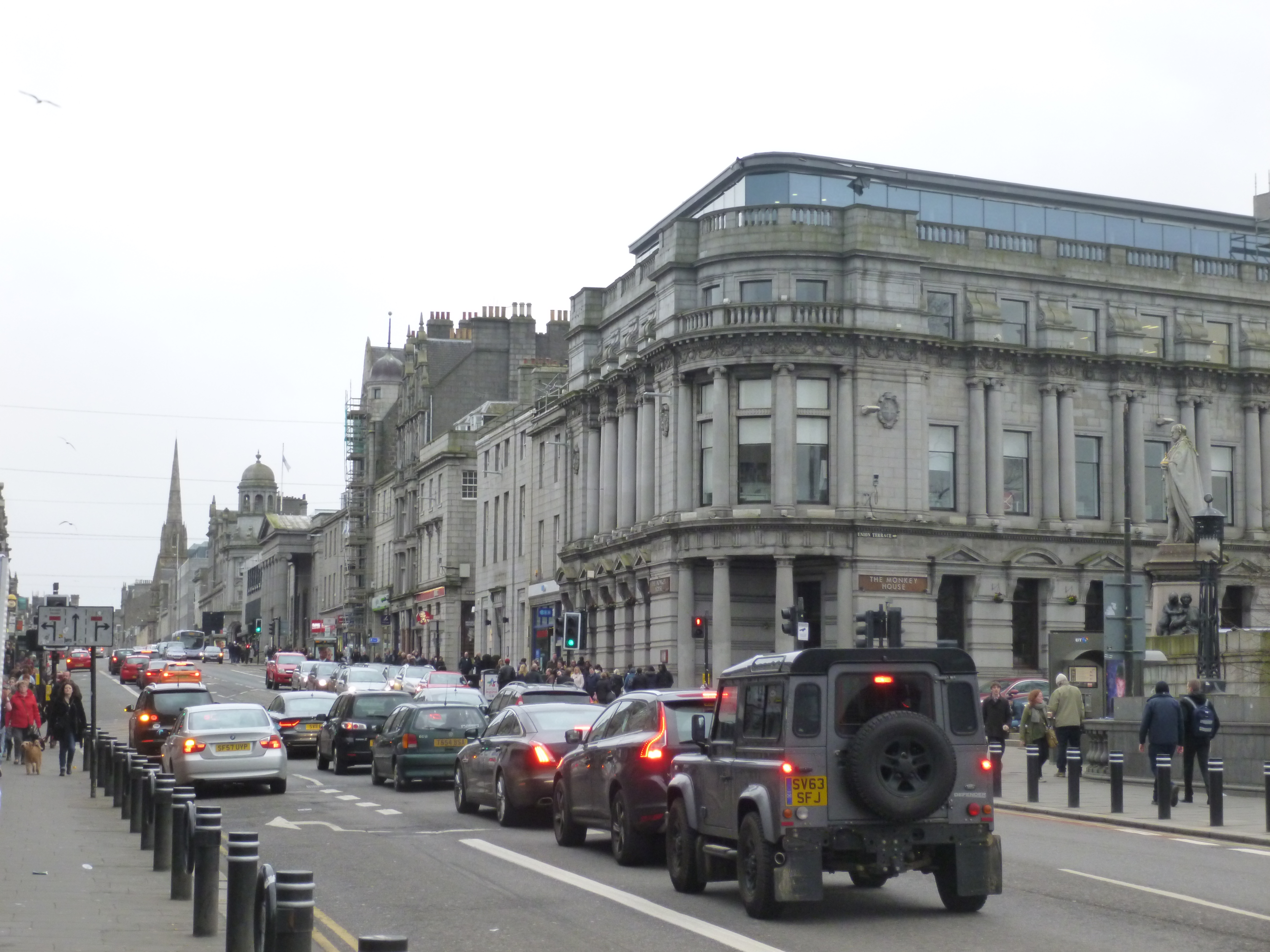 Towards West End Union St, Aberdeen